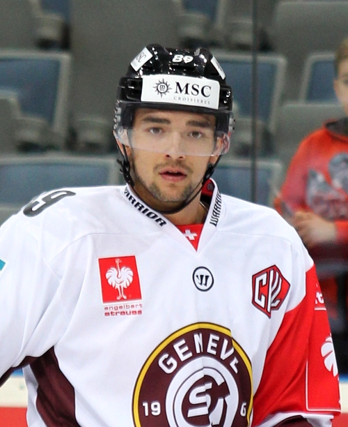 Cody Almond, CHL match HC Sparta Praha vs. Genève-Servette HC, 5th September 2015